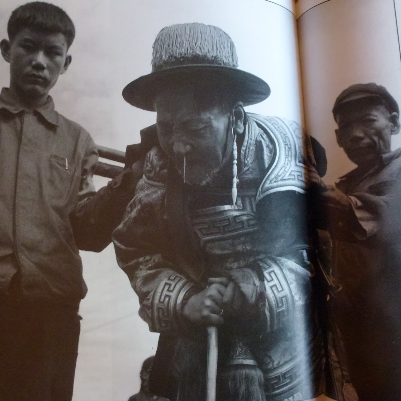 Sampho and his wife during the Cultural Revolution